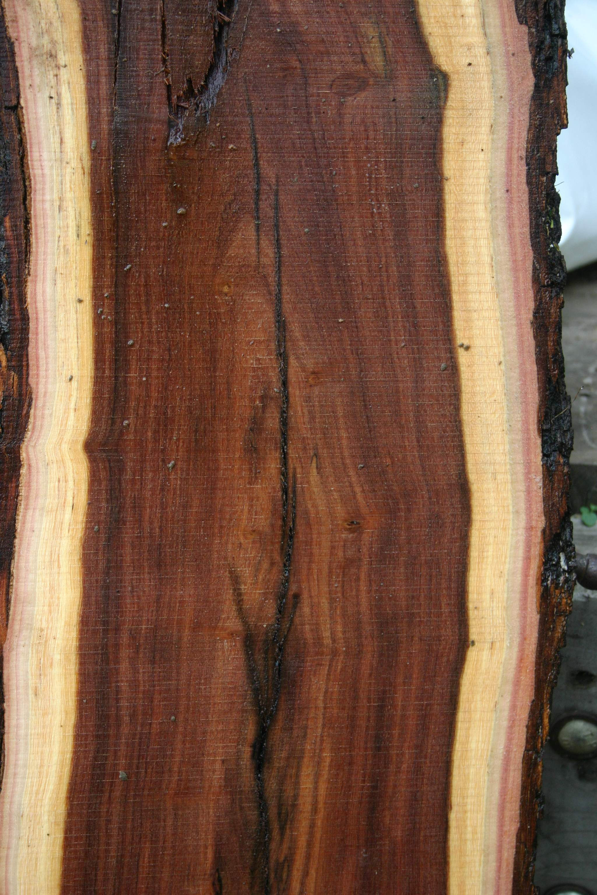 Freshly-sawn plank of Acacia caffra, Chucklenook sawmill, Honeydew, Johannesburg